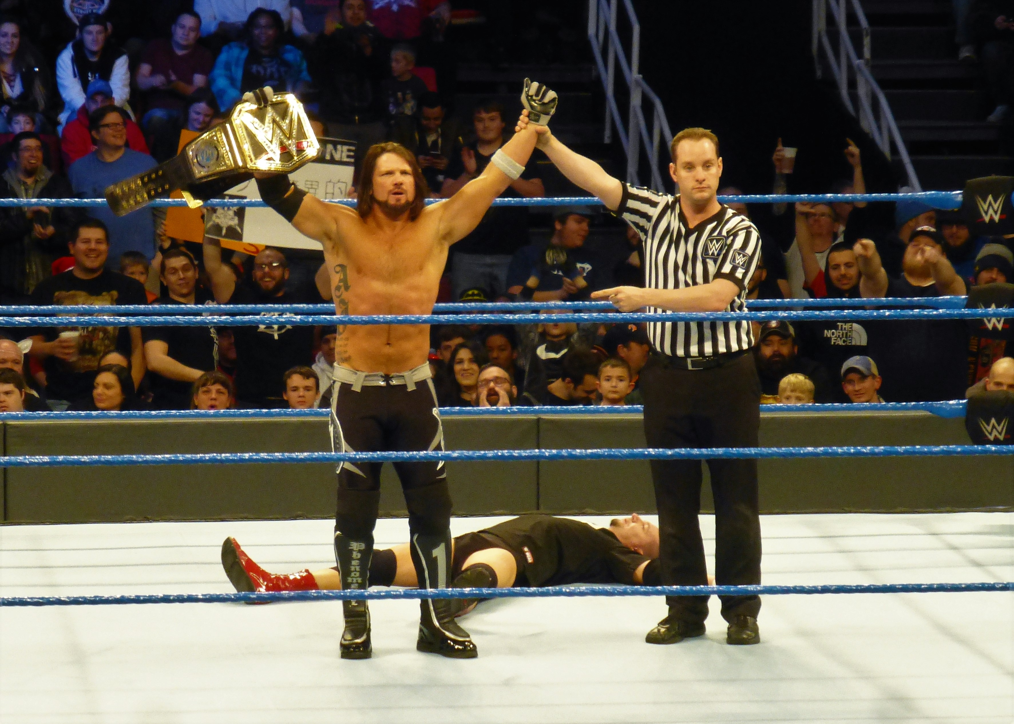 AJ Styles styling